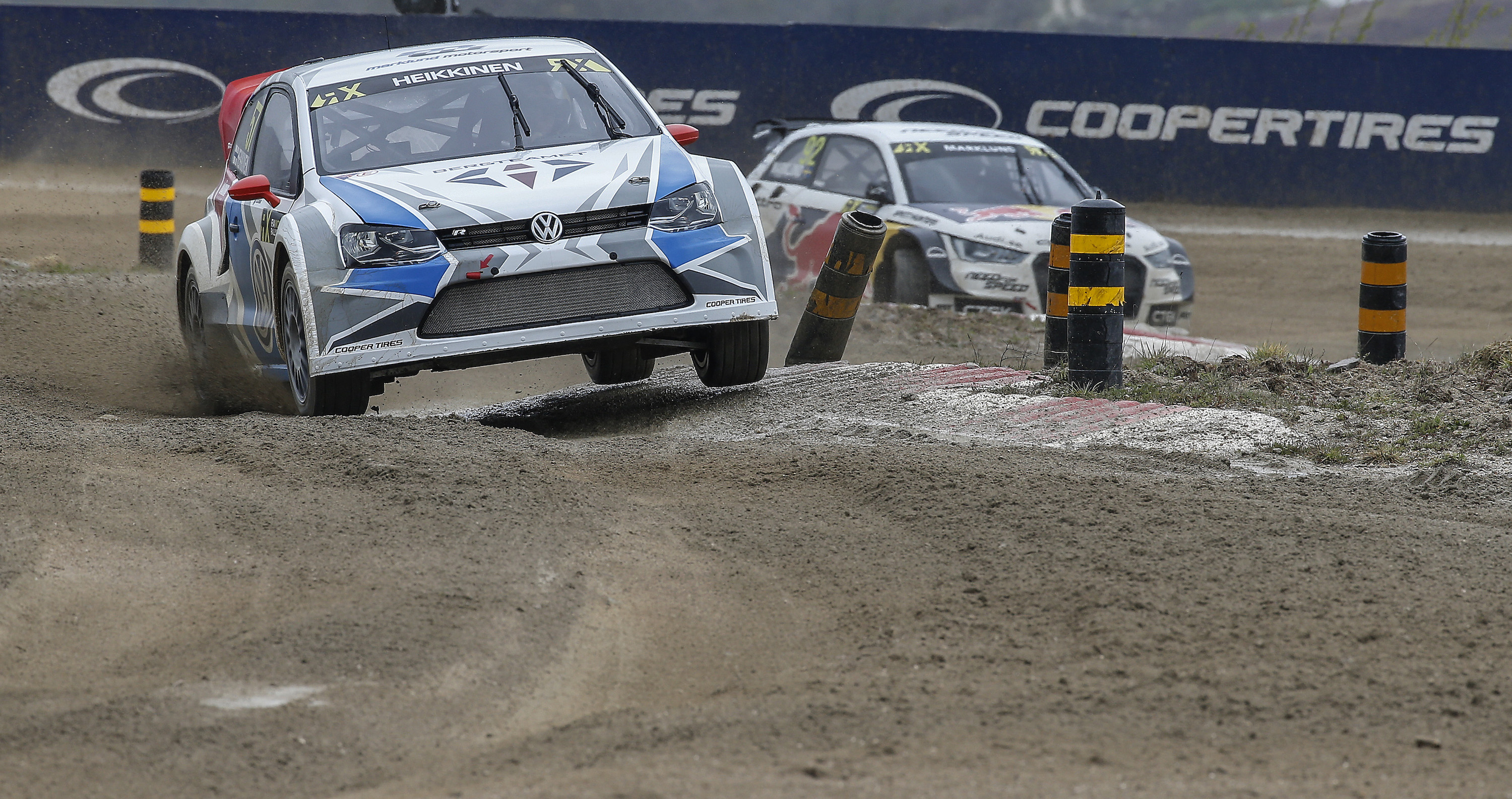 Finnish rallycross driver Toomas Heikkinen in his VW Polo Supercar, being chased by the Audi of Anton Marklund. Round 1 of the 2015 FIA World Rallycross Championship, at Pista Automóvel de Montalegre, Portugal.